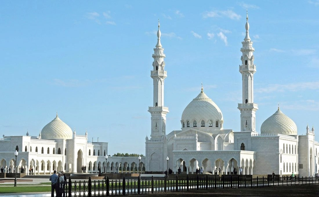 Mosque in the museum-reserve of history and architecture in Bolgar, Republic of Tatarstan